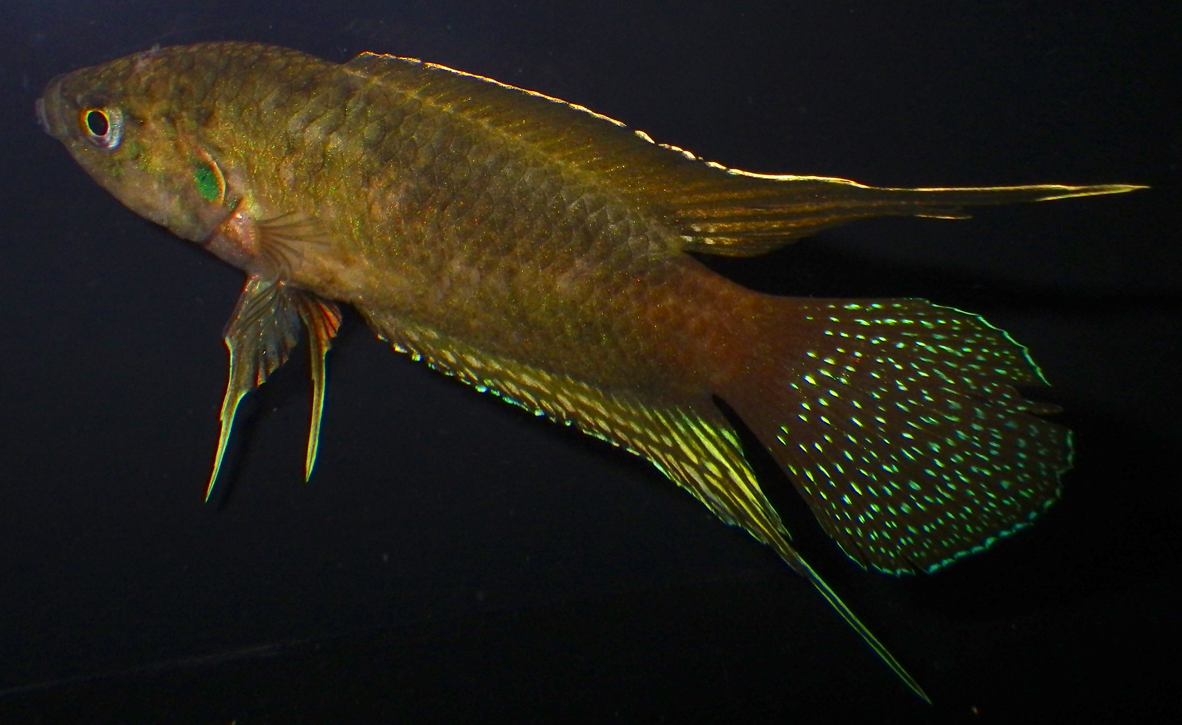 Macropodus ocellatus young, tank-raised male